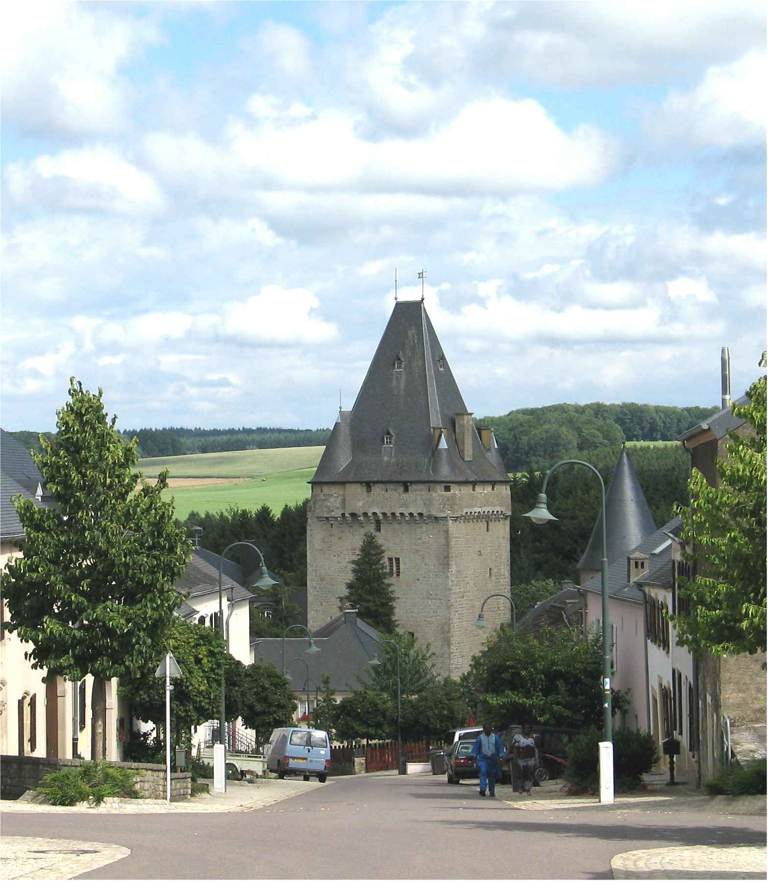 Luxembourg: the village of Hollenfels with the medieval castle in the background.